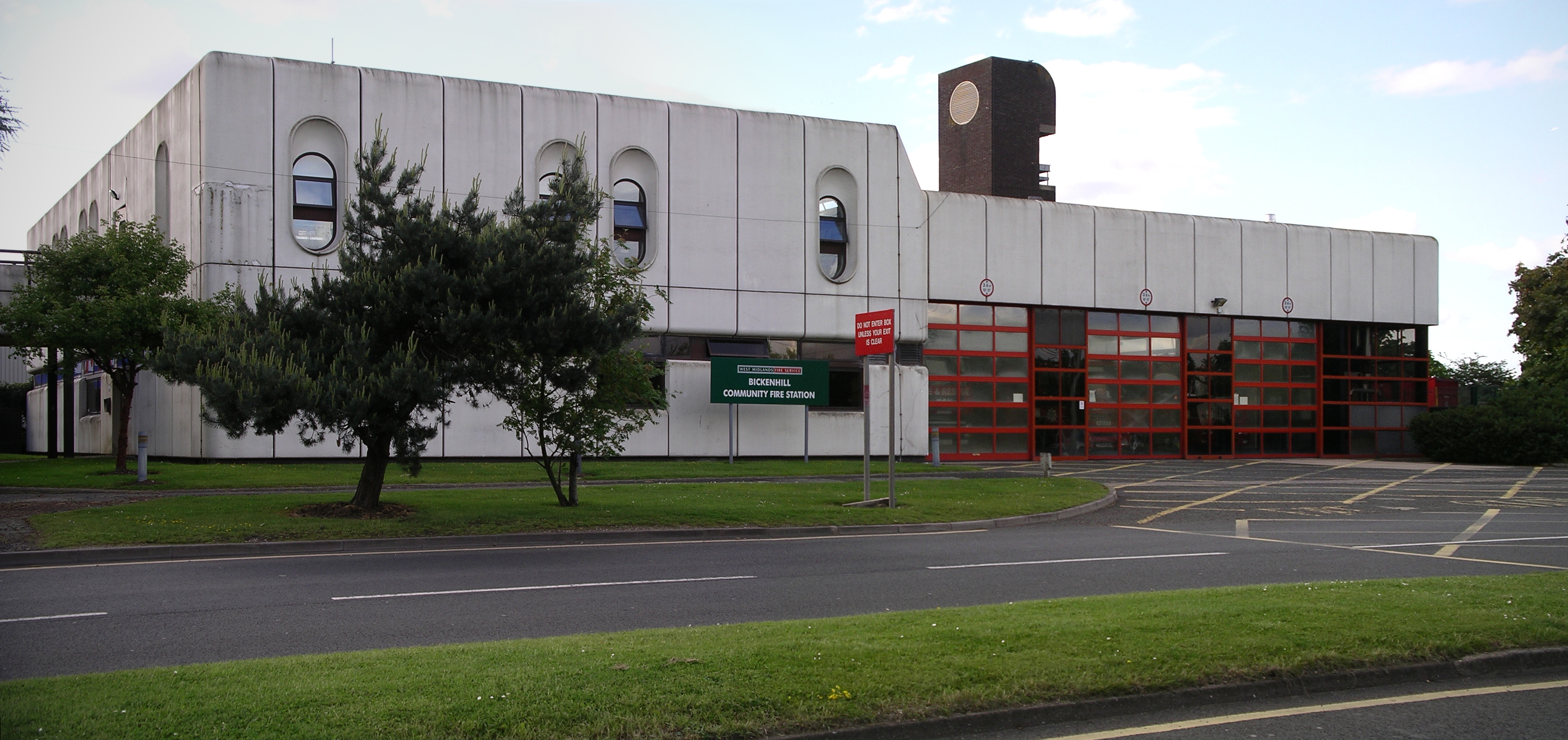 Bickenhill Community Fire Station, West Midlands, England (this image is two photographs stitched).